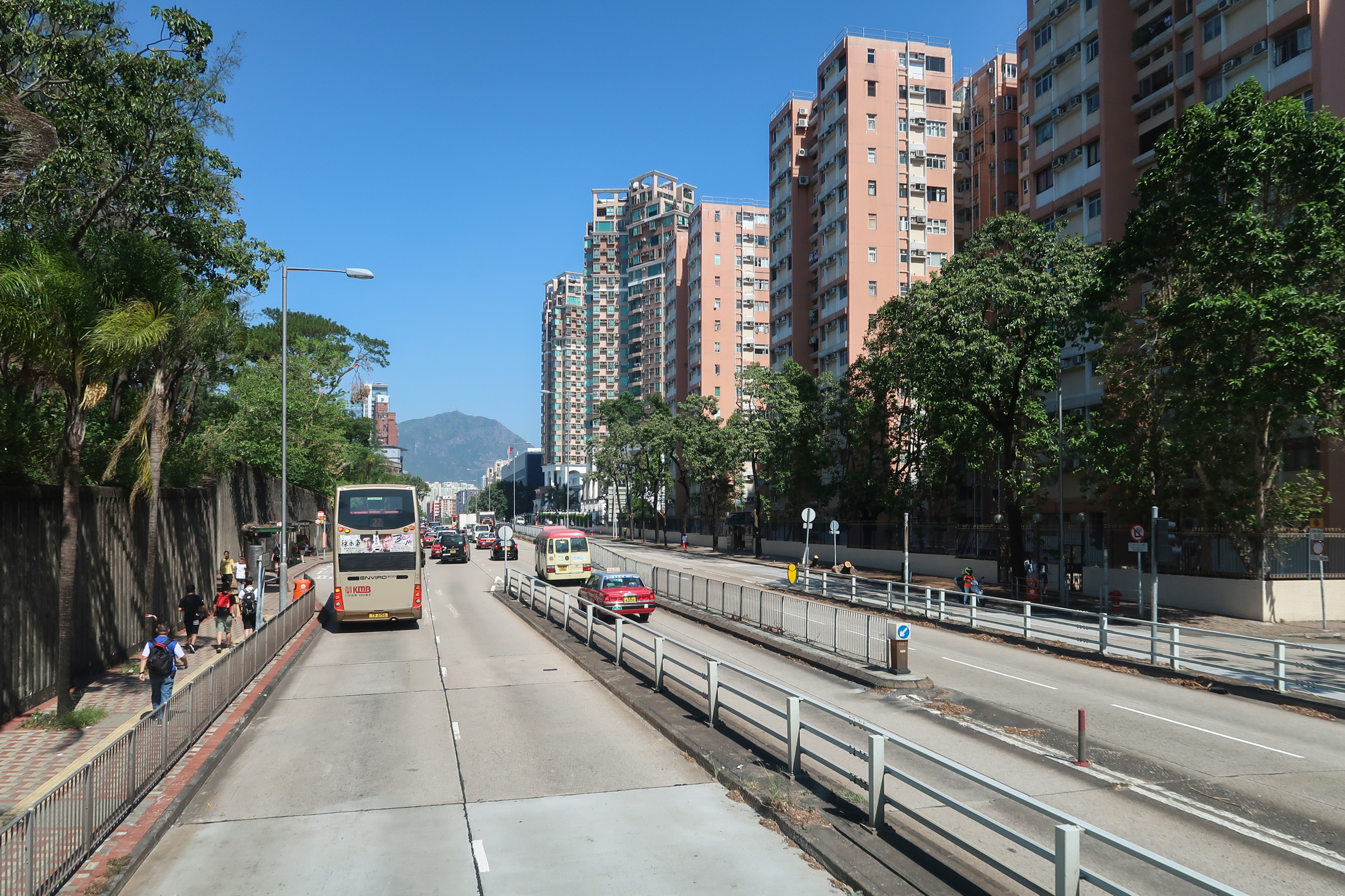 Argyle Street near Kowloon Tsai